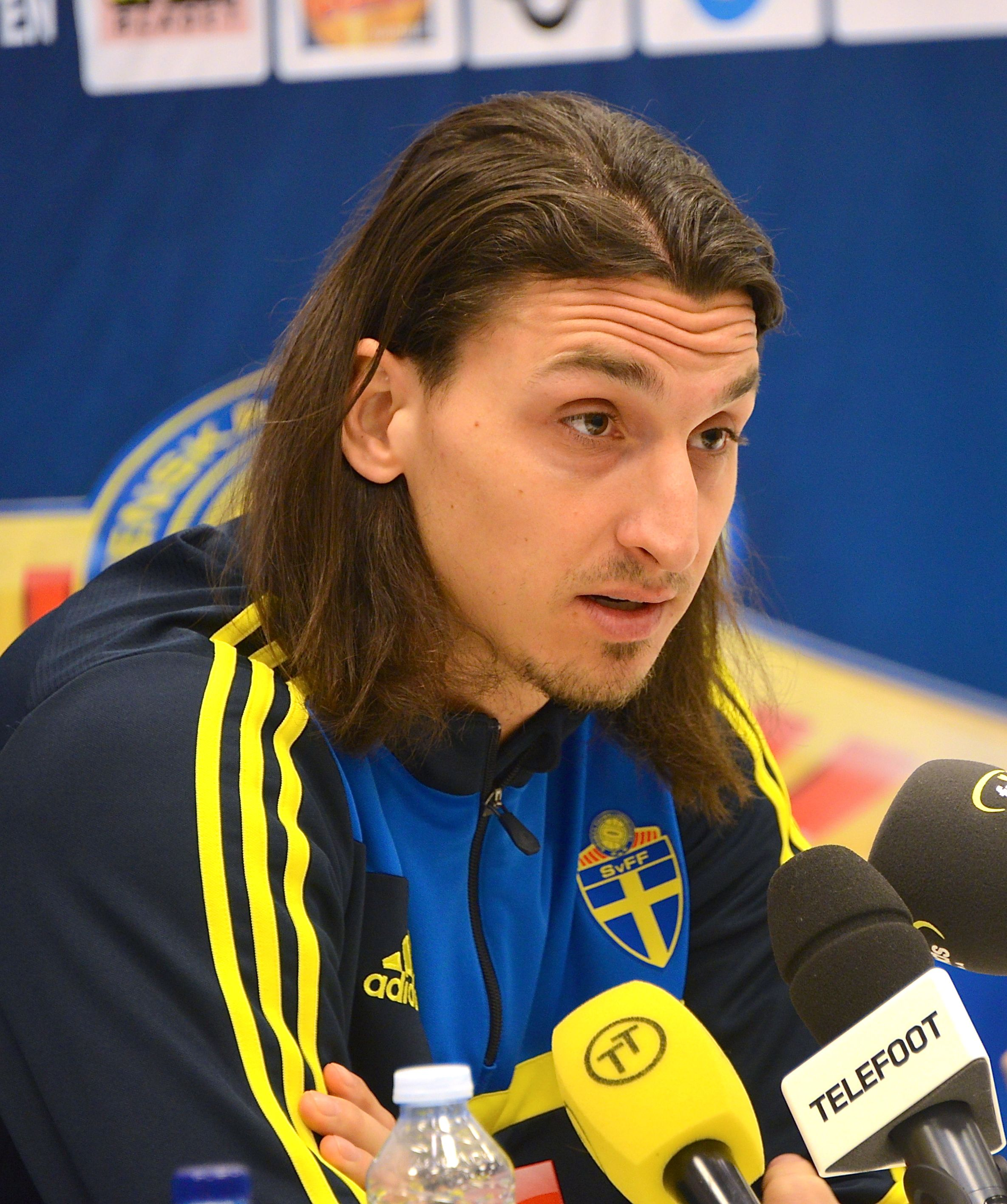 Zlatan Ibrahimović at a press conference March 21, 2013 before the qualifying match against Ireland.